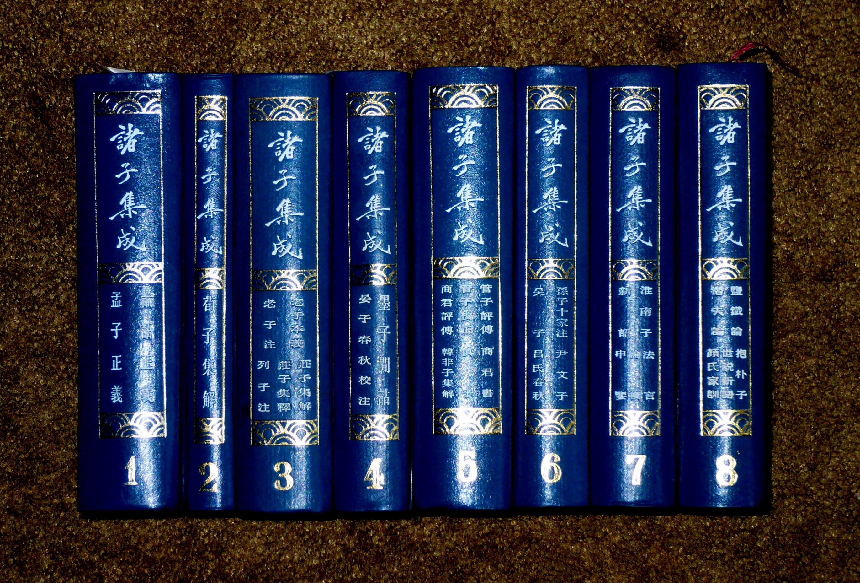 Collection of Chinese Classics